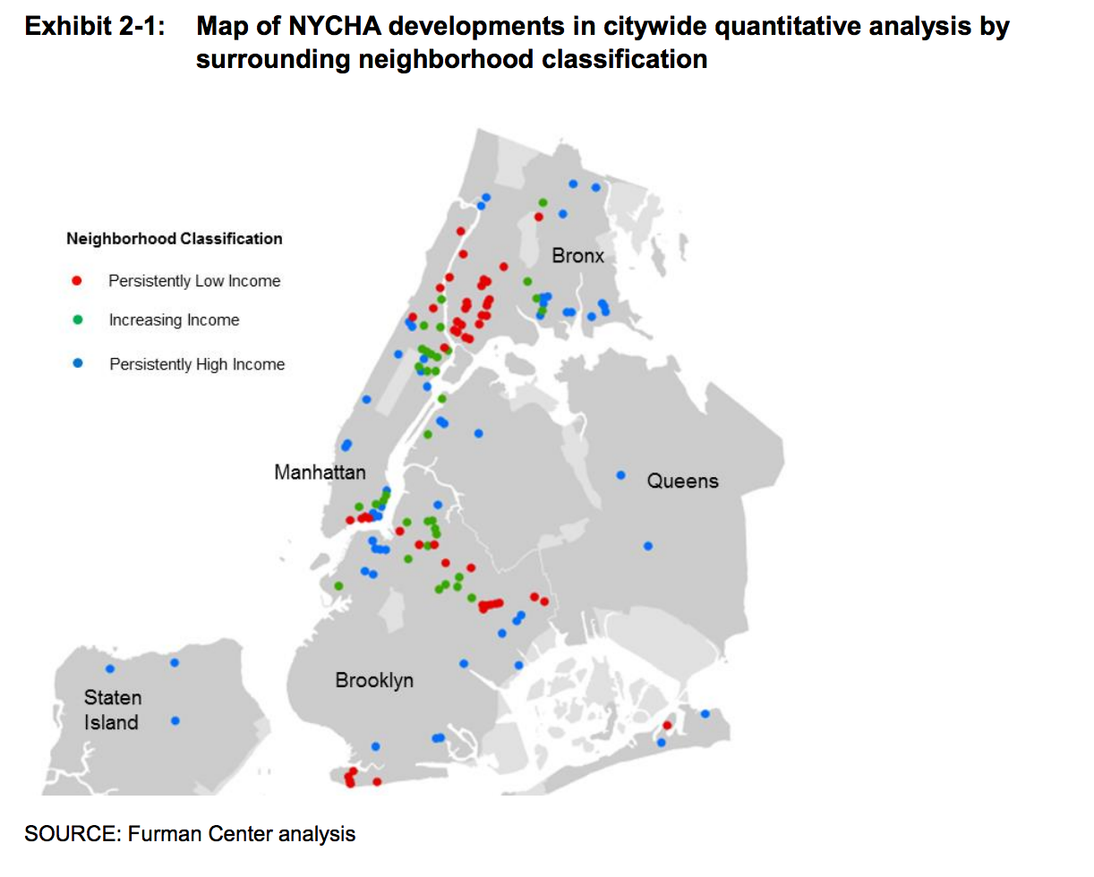 SOURCE: Furman Center analysis